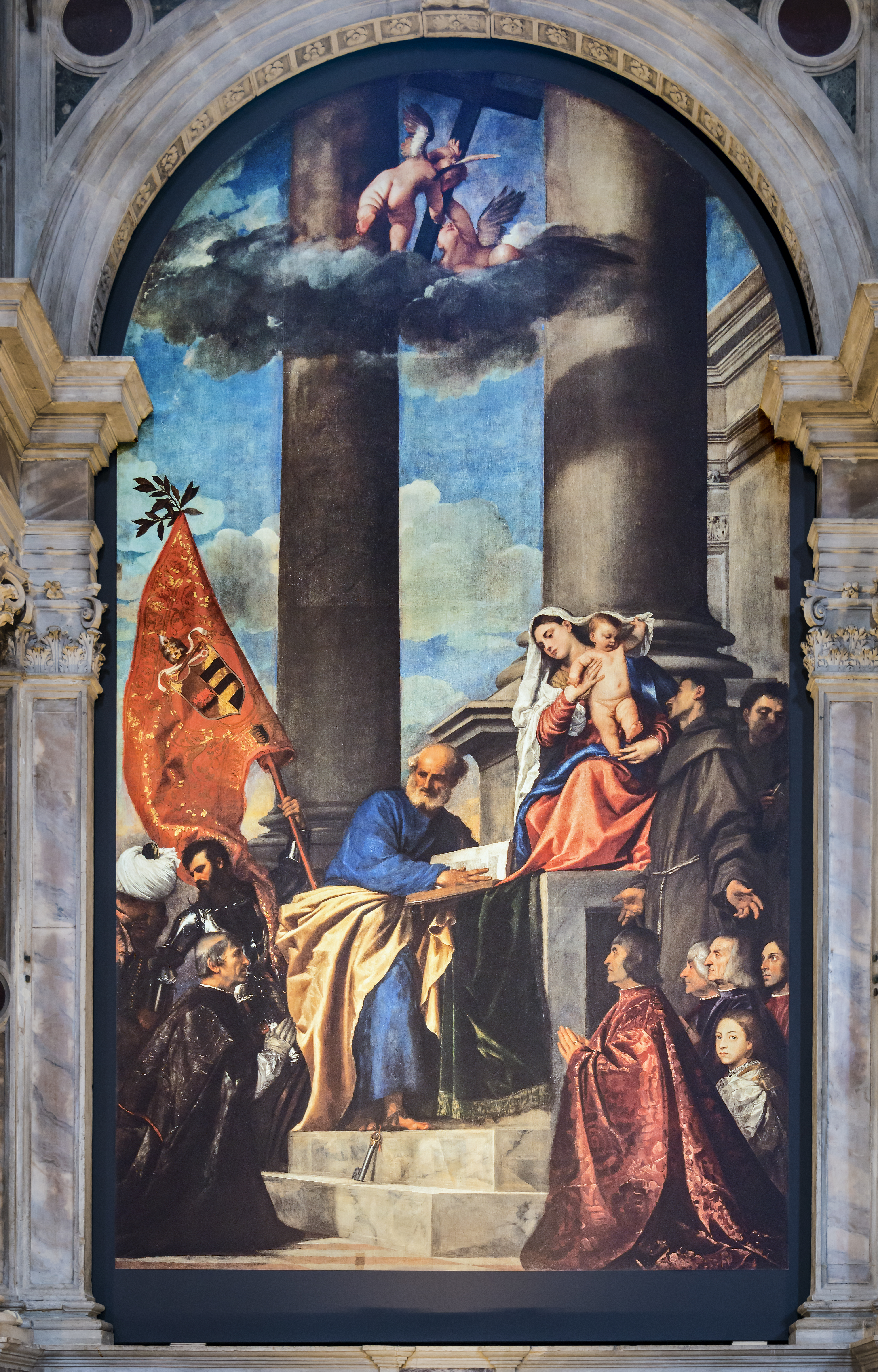 Santa Maria Gloriosa dei Frari - Madona di Ca'Pesaro by Titian. Size : 478 × 268 cm (15.6 × 8.7 ft). This image shows a replica of Titian's Pesaro Madonna that was on display while the original painting was being restored. Titian's work was reinstalled in September 2017, following the four-year restoration. The painting was commissioned in 1519 by Bishop Jacopo Pesaro, buried on the right side of the altar. The work will be completed in 1526. Jacopo Pesaro knelt before St. Peter wearing the yellow and blue colors of the Pesaro family. Several family members were present: Francesco with a large red coat and behind him, Antonio Fantino and Giovani, below Leonardo, nephew of Francesco . Off-center on the right the Virgin with the Child Jesus and St. Anthony of Padua.